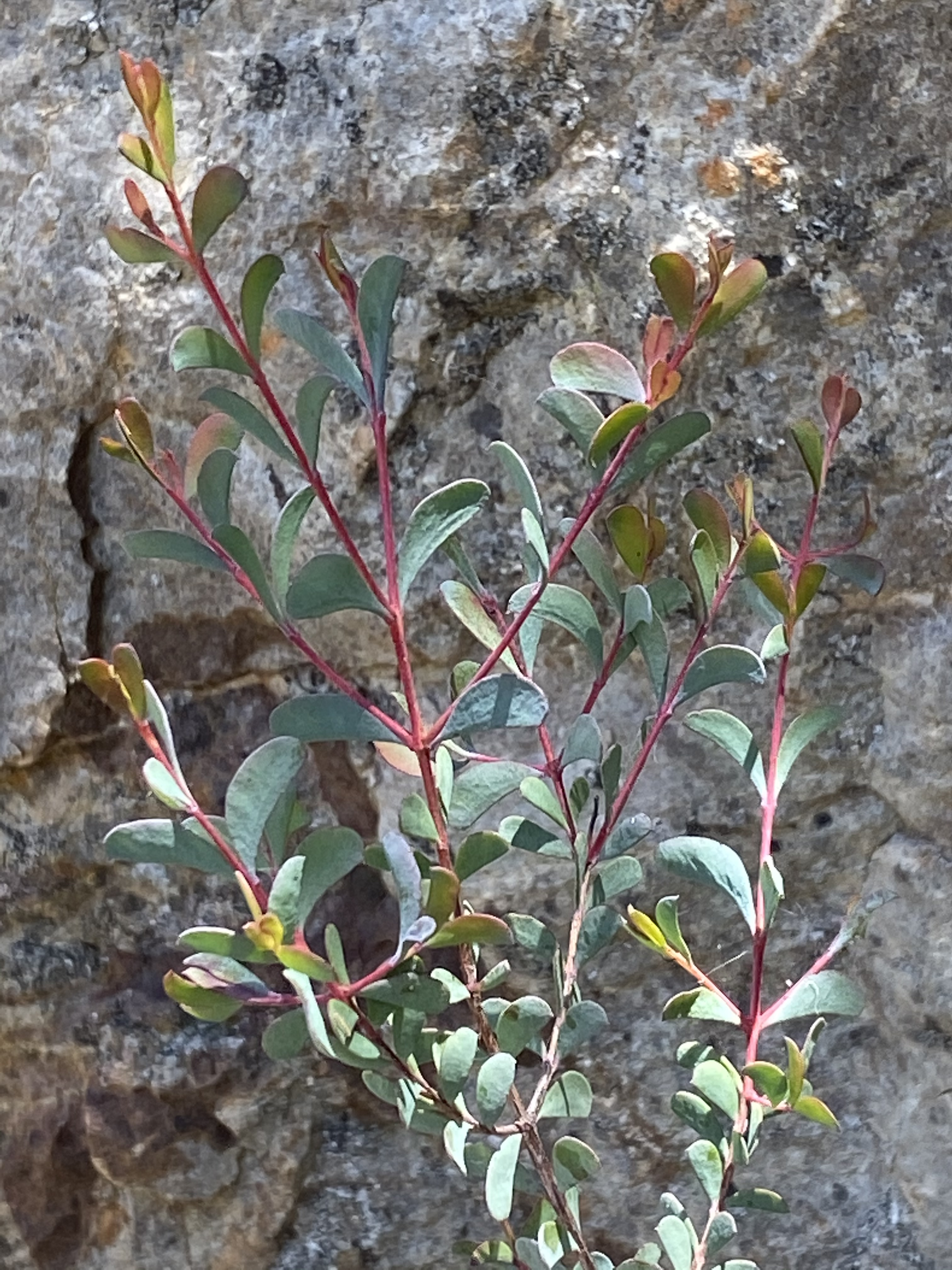 Homoranthus zeteticorum foliage